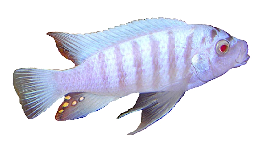 Zebra Mbuna Metriaclima zebra, synonym: Maylandia zebra.